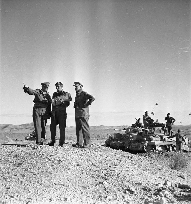 General Freyberg, General Officer Commanding the New Zealand Division, confers with Brigadier Stephen Weir (on right) on a vantage point overlooking Azizia during the World War 2 advance on Tripoli, North Africa. Two Stuart tanks of the New Zealand Divisional Cavalry wait alongside.